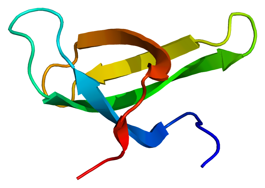 Structure of the SMN1 protein. Based on PyMOL rendering of PDB 1g5v.